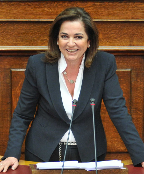 Dora Bakoyannis in the Greek Parliament in her role as Minister of Foreign Affairs